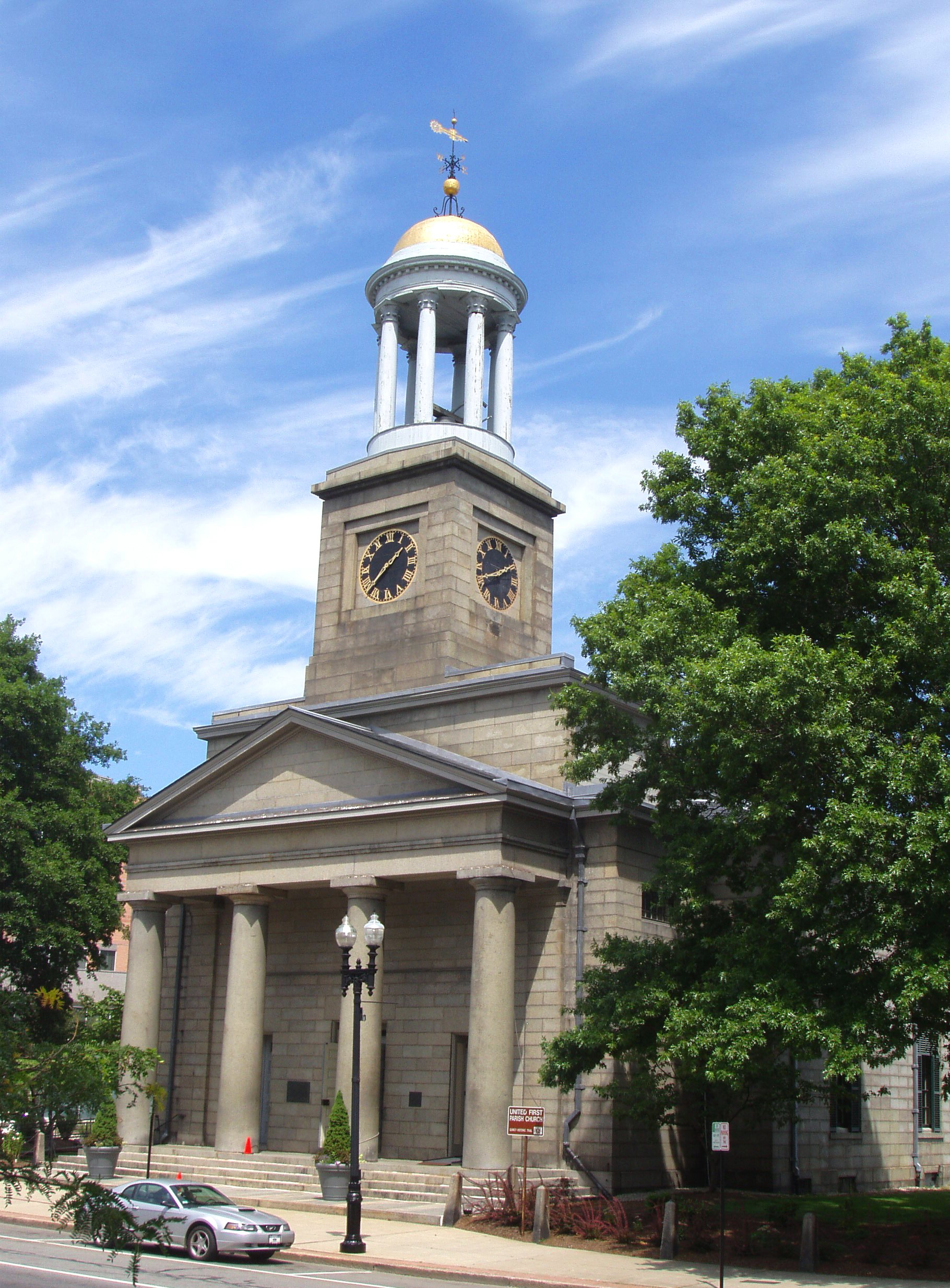 The United First Parish Church, Quincy, Massachusetts. Built 1828, architect Alexander Parris. The graves of Presidents John Adams and John Quincy Adams are in a crypt beneath the church. Photograph taken by me, August 2005.